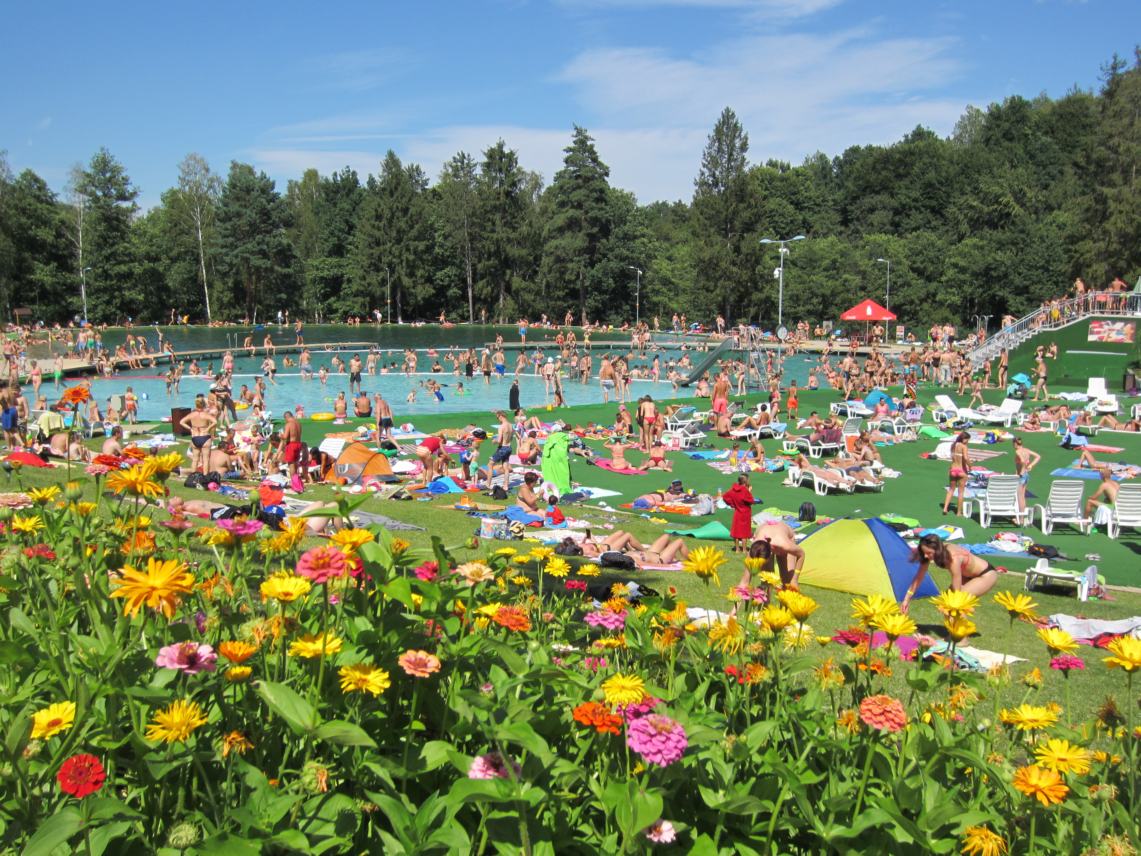 Biokúpalisko Sninské rybníky in July